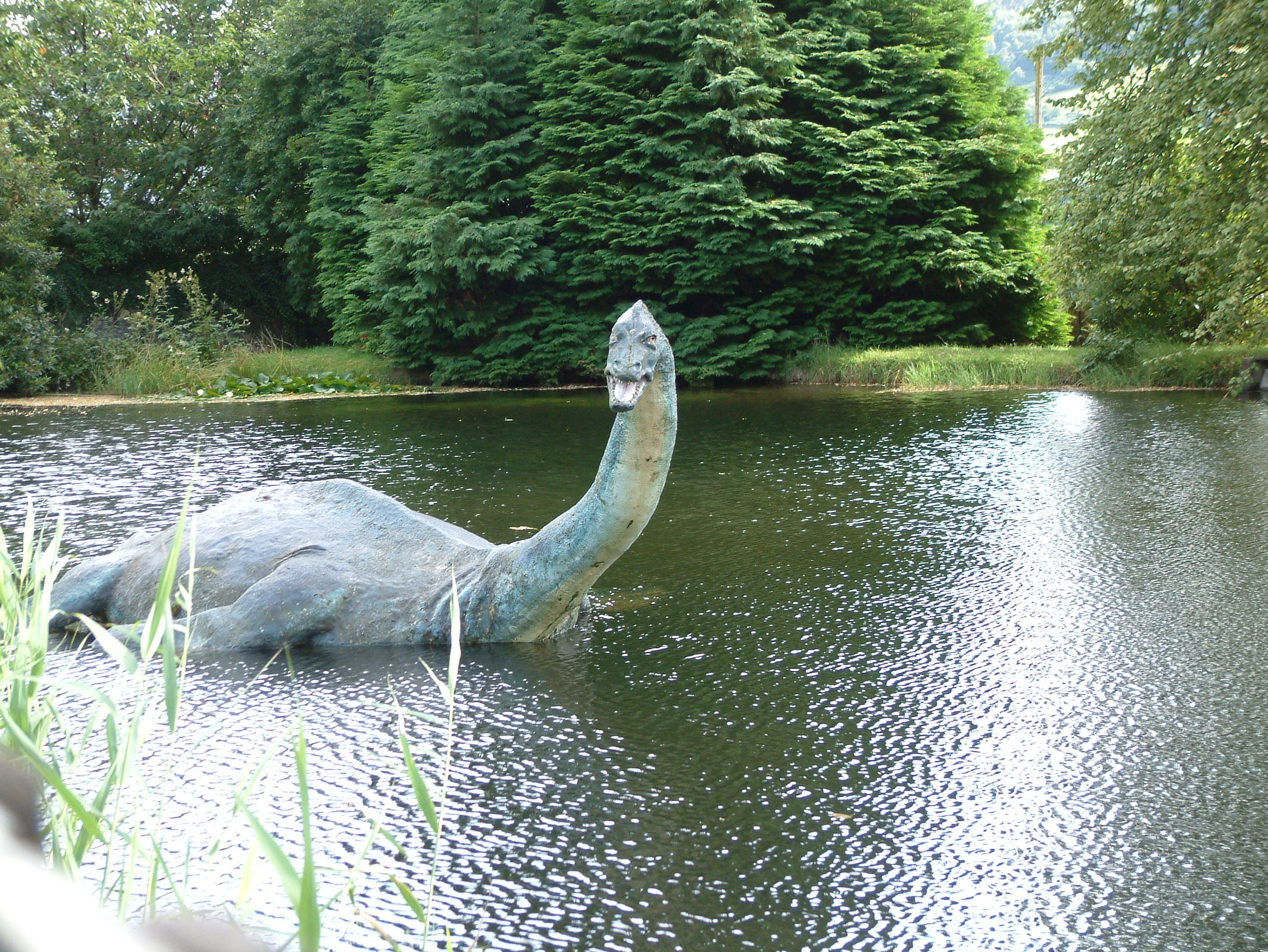 Nessie replica in Scotland.